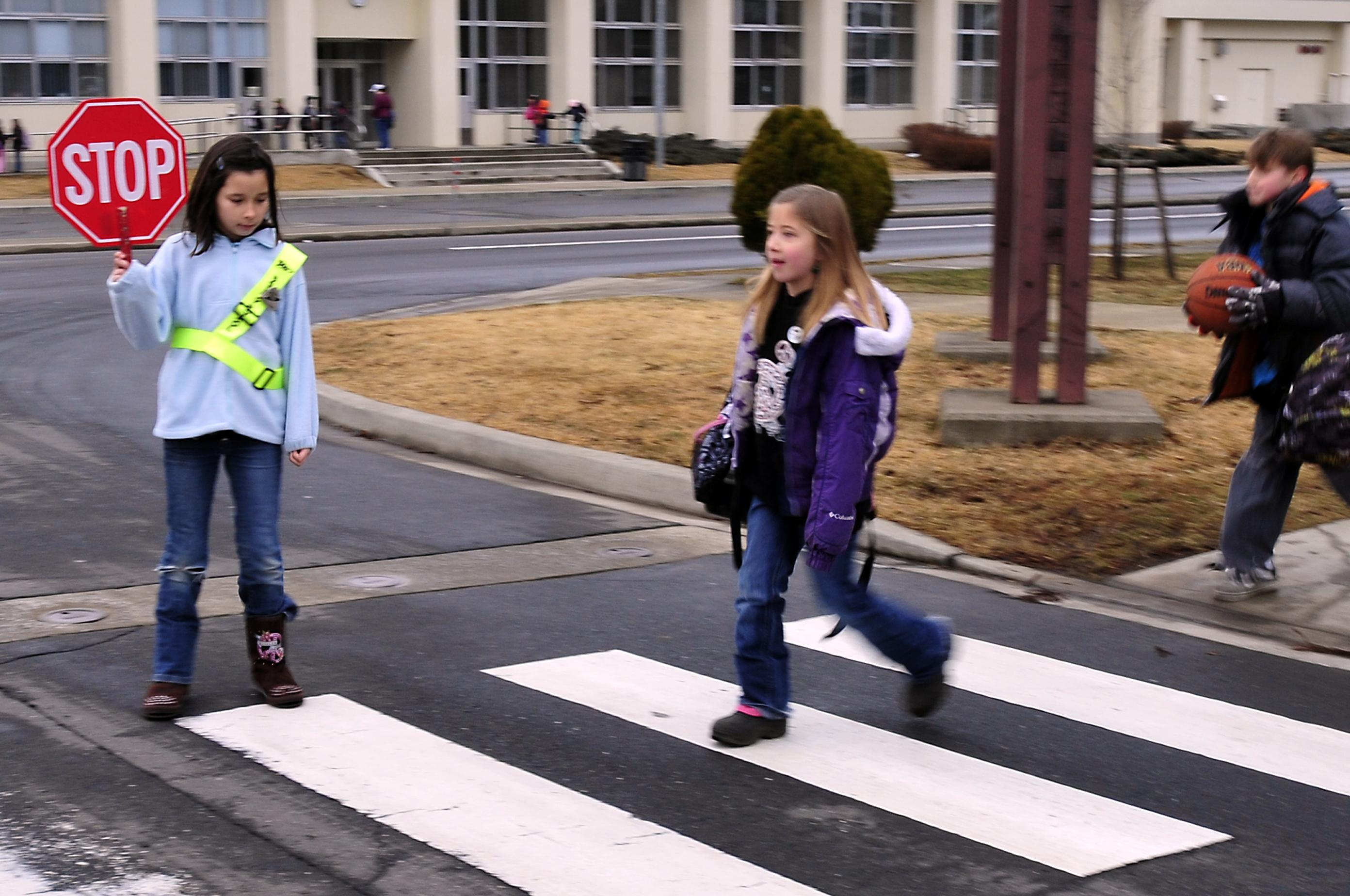 Ten-year-old Samantha Browning, safety patrol, stops traffic to allow students to safely cross the street March 21. Safety patrol is a volunteer program for fourth, fifth and sixth graders to raise and lower the flags and ensure the safety of younger children as they cross the street at the crosswalks.